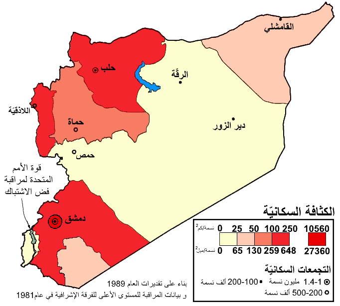 Syria - Population Density from the CIA Atlas of the Middle East 1993